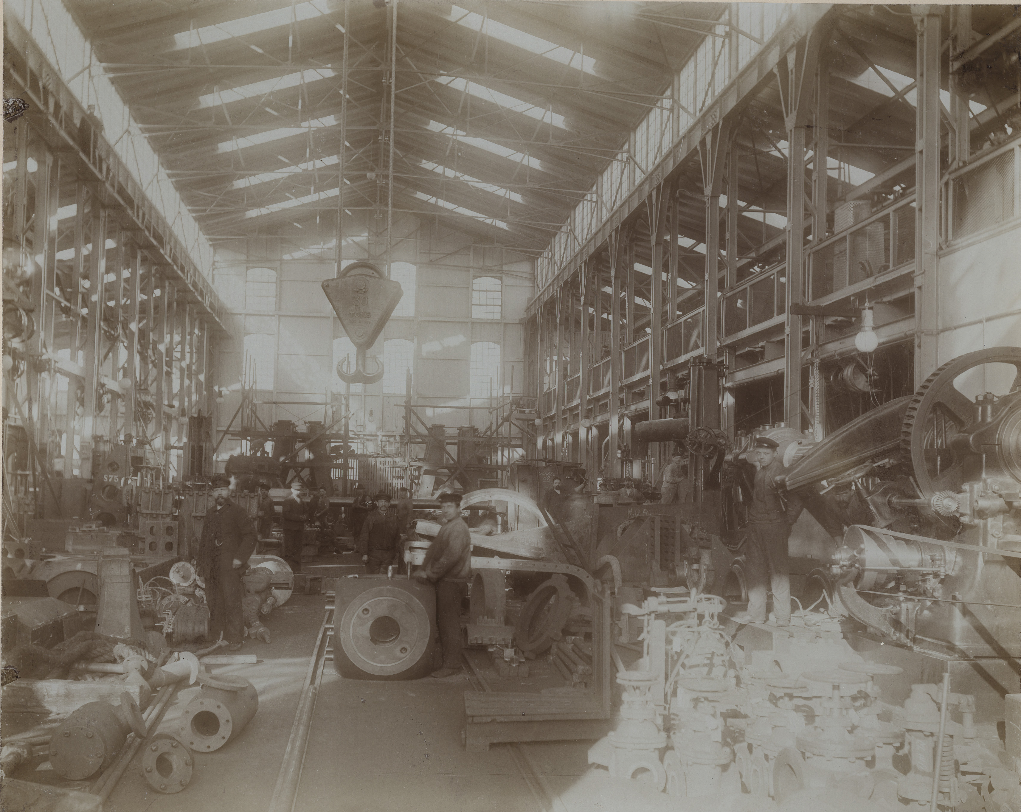 Format: Fotopositiv Dato / Date: ca. 1900 Fotograf / Photographer: Ukjent Sted / Place: Geestemünde; Bremerhaven, Tyskland Wikipedia: Joh. C. Tecklenborg Eier / Owner Institution: Trondheim byarkiv, The Municipal Archives of Trondheim Arkivreferanse / Archive reference: Tor.H44.L02.F9335